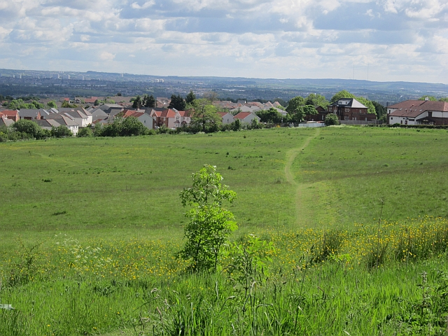 Out of production land, West Greenlees